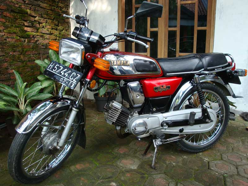 Yamaha L2 Super (1984) left side.